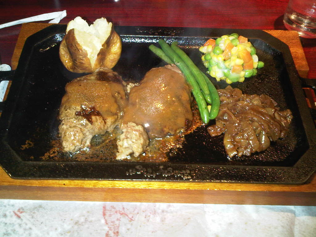 Hungry Tiger Oridinal Hunburg